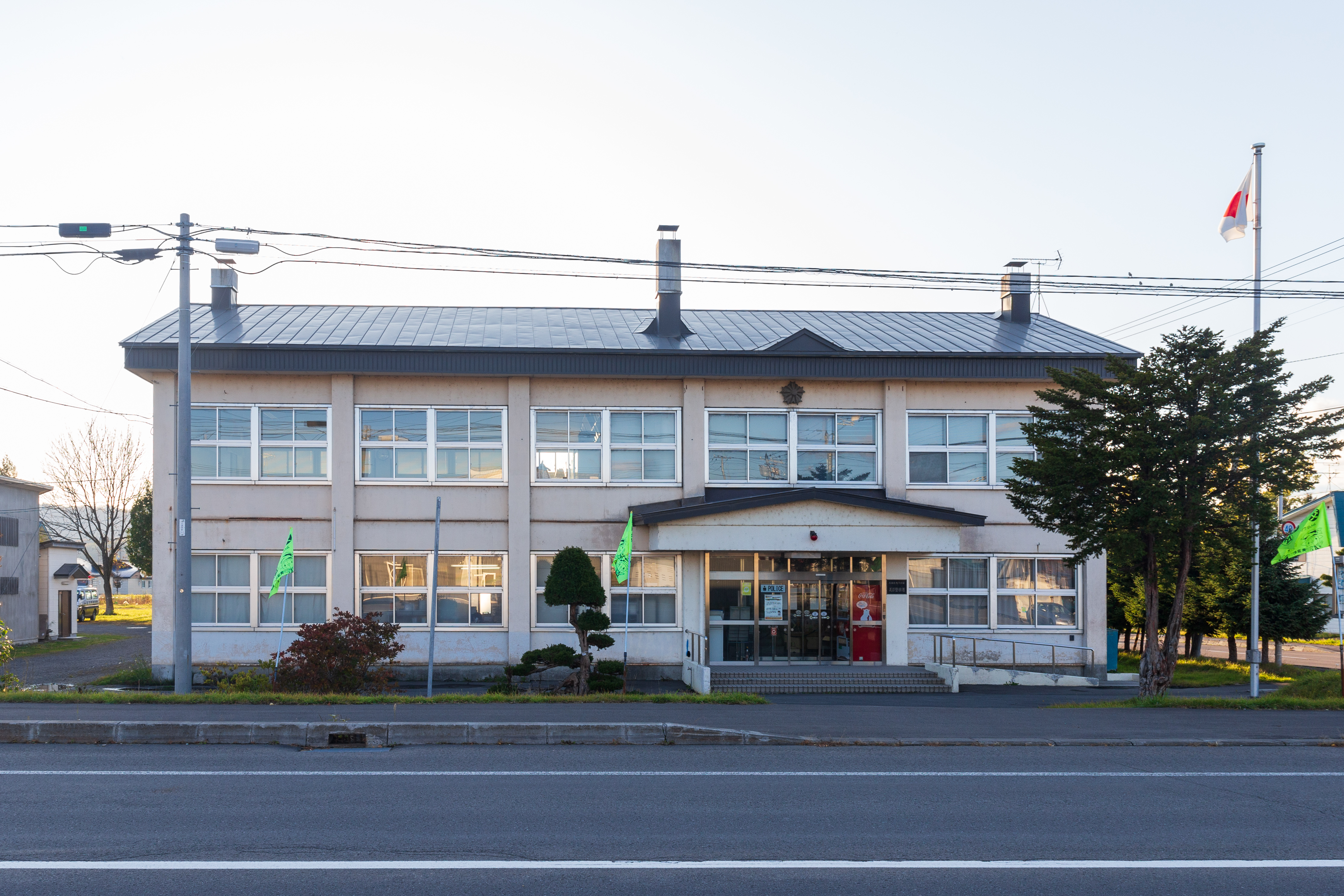 Hokkaido Prefectural Police Bifuka Police Station in Bifuka Town, Hokkaido, Japan